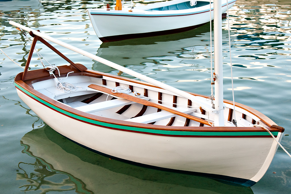 Photo of Abaco Dinghies taken on Man-O-War Cay, Bahamas. They were built by Joseph Albury of Man-O-War Cay circa 2010.